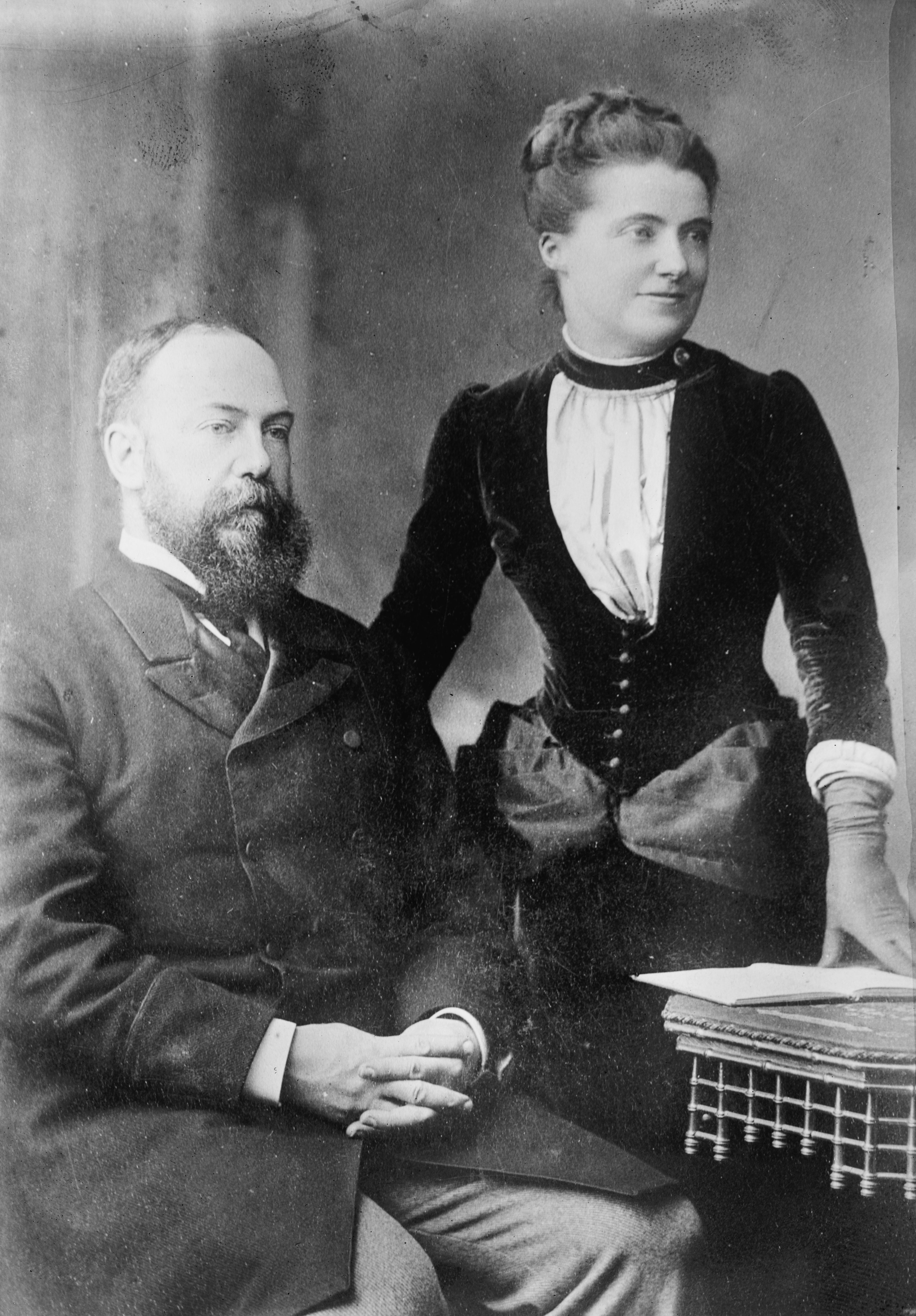 Title: Sir Chas. Dilke and wife Abstract/medium: 1 negative : glass ; 5 x 7 in. or smaller.